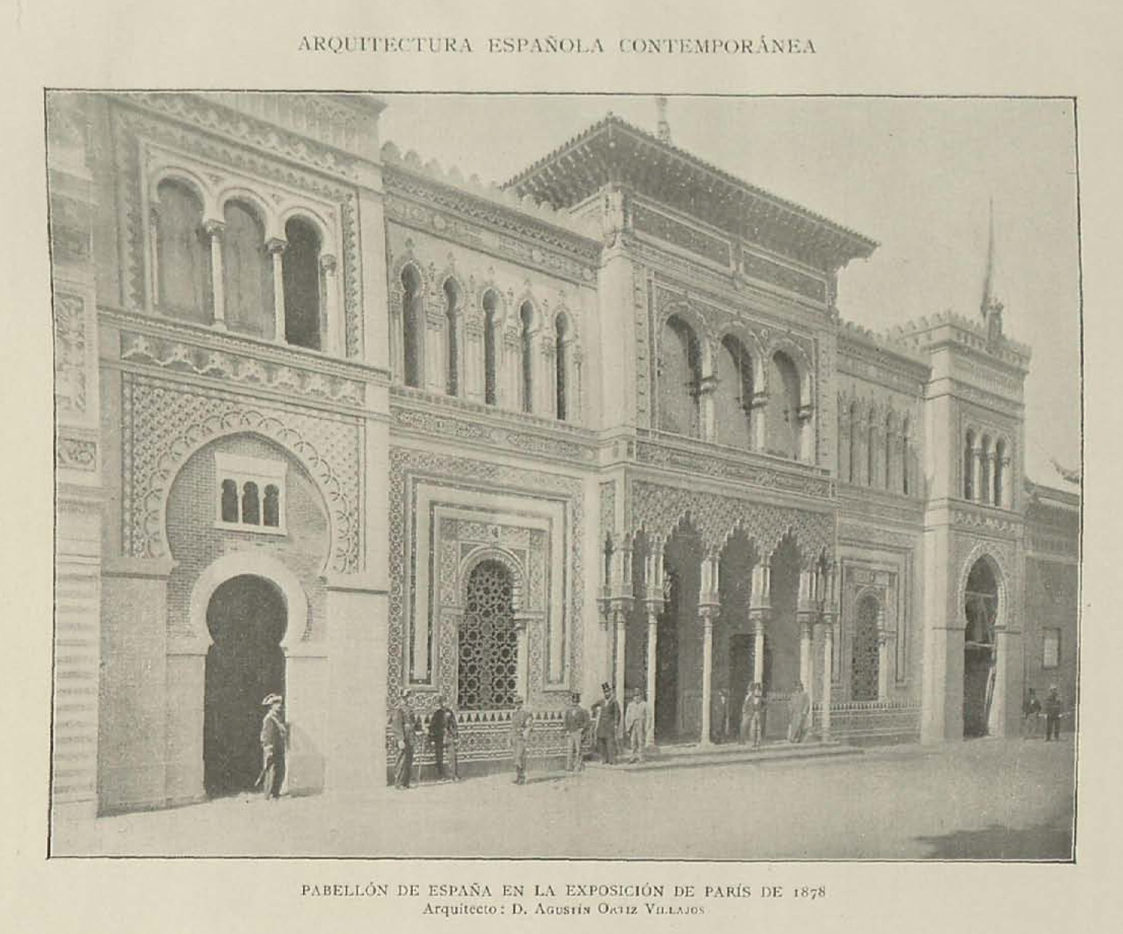 Pabellón de España en la Exposición de París de 1878.